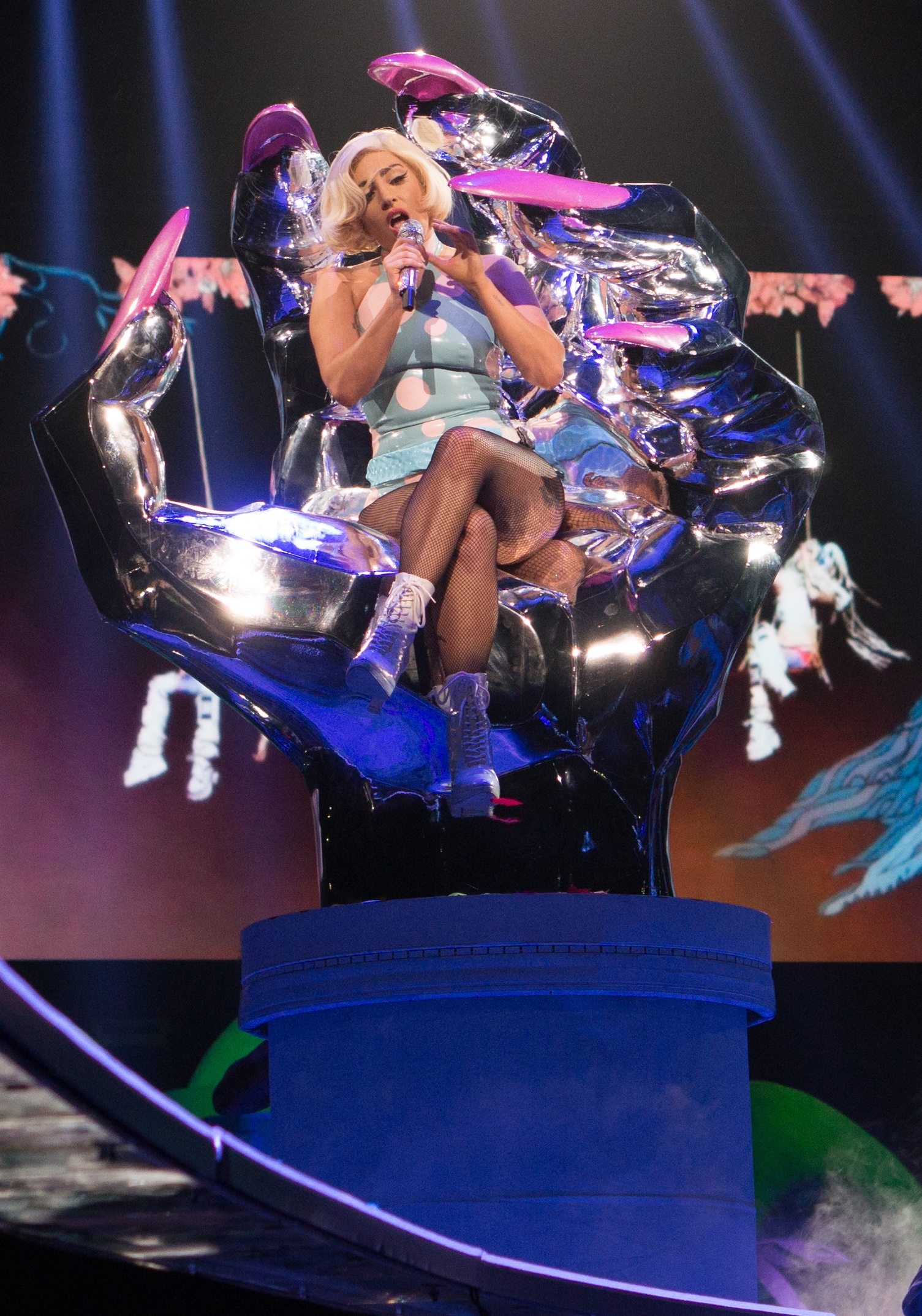 Lady Gaga performing "Do What U Want" at the Artrave: The Artpop Ball.